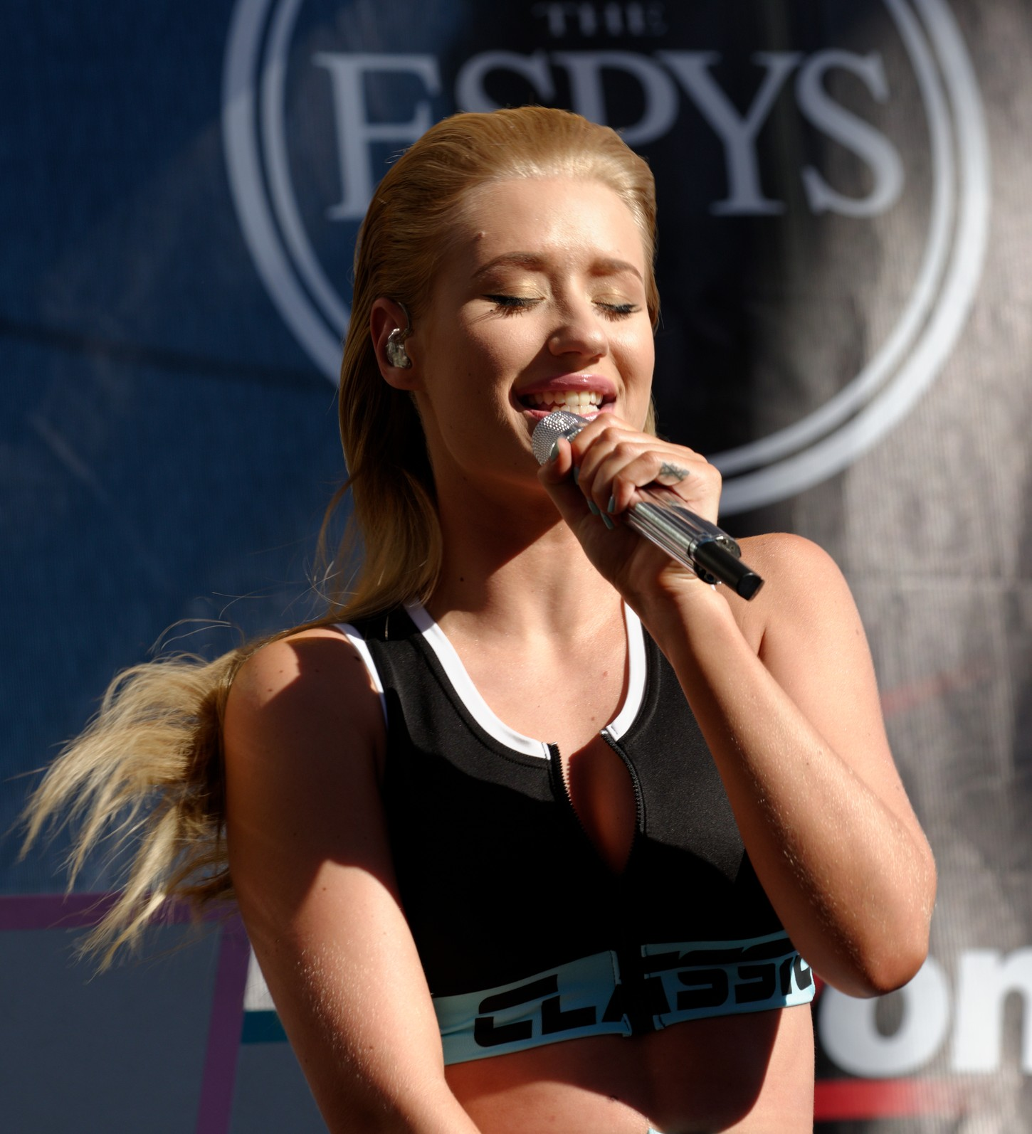 Iggy Azalea performing live at the ESPYs Experience (the ESPY Awards Pre-Show) on Nokia Plaza at L.A. Live in downtown Los Angeles California on Wednesday July 16th, 2014.